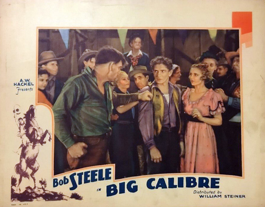 Lobby card for the American western film Big Calibre (1935) with Bob Steele and Peggy Campbell (1912 – 1985).